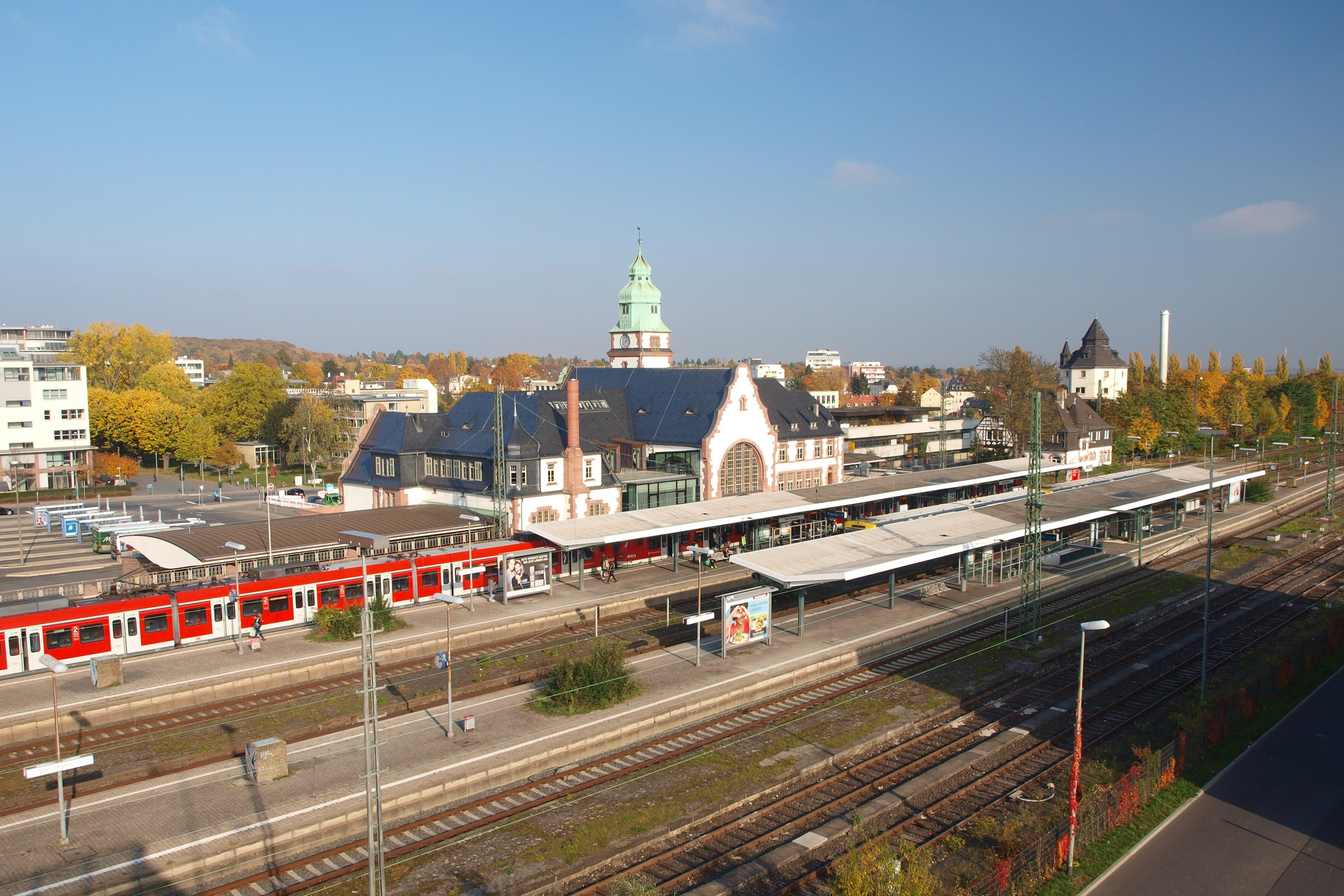 Bad Homburg station, tracks and station building, from southwest